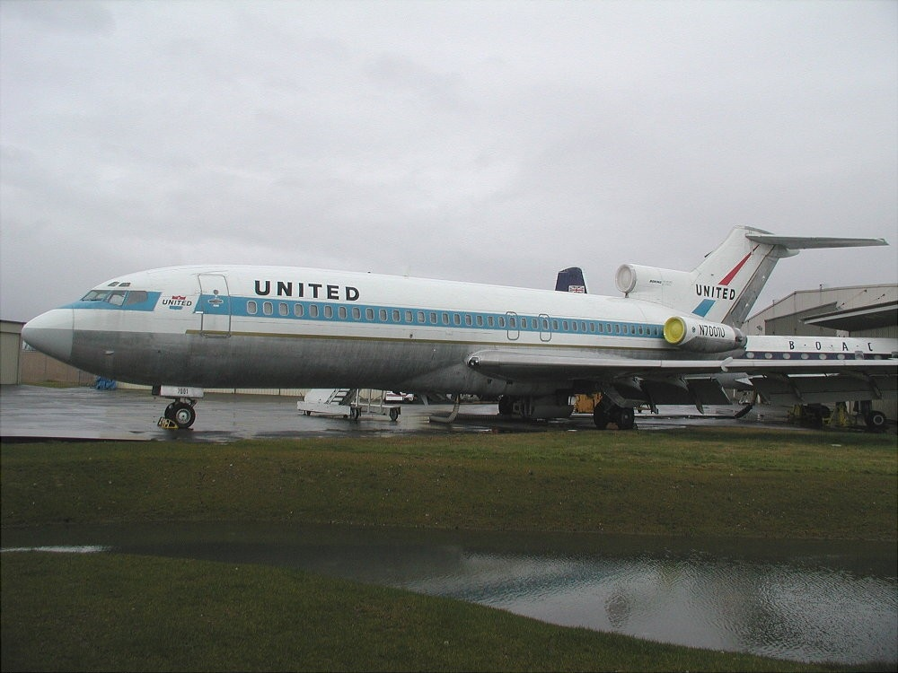 First production Boeing 727. Parked at the Museum of Flight restoration center.